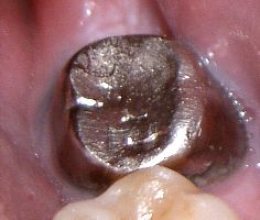 Crown（dentistry）